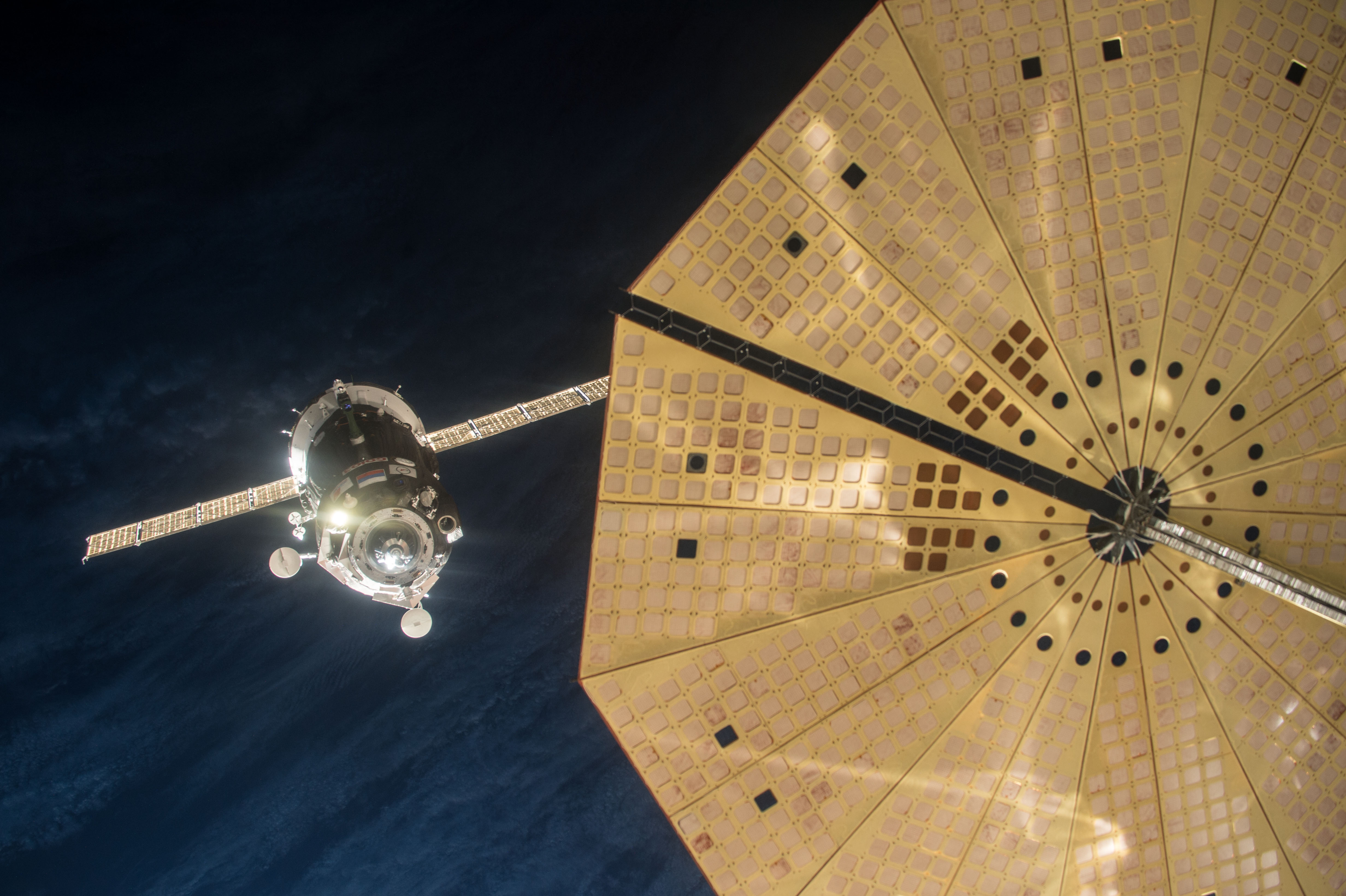 Russian cosmonaut Yuri Malenchenko manually docked the Soyuz TMA-19M spacecraft on Dec. 15, 2015 to the International Space Station's Rassvet module after an initial automated attempt was aborted. Malenchenko took control of the Soyuz, backed it away from the station to assess the Soyuz' systems, then re-approached the complex for the manual docking. Flight Engineer Tim Kopra of NASA and Flight Engineer Tim Peake of ESA (European Space Agency) flanked Malenchenko as he brought the Soyuz to the Rassvet port for the start of a six-month mission. The solar array from the docked Orbital AT Cygnus cargo vehicle is also in view at right. After leak checks were conducted on both sides of the docking interface, hatches were opened and Malenchenko, Kopra and Peake were greeted by Expedition 46 Commander Scott Kelly of NASA and Flight Engineers Mikhail Kornienko and Sergey Volkov of the Russian Federal Space Agency (Roscosmos). The arrival of Kopra, Malenchenko and Peake returns the station's crew complement to six. The three join Expedition 46 Commander Scott Kelly of NASA and Flight Engineers Sergey Volkov and Mikhail Kornienko of Roscosmos. During more than five months on humanity’s only microgravity laboratory, the Expedition 46 crew members will conduct more than 250 science investigation in fields including biology, Earth science, human research, physical sciences and technology development. Kopra, Malenchenko and Peake will remain aboard the station until early June 2016.